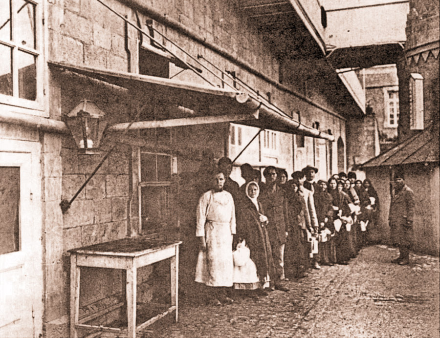 pilgrims in the Russian Compound Jerusalem